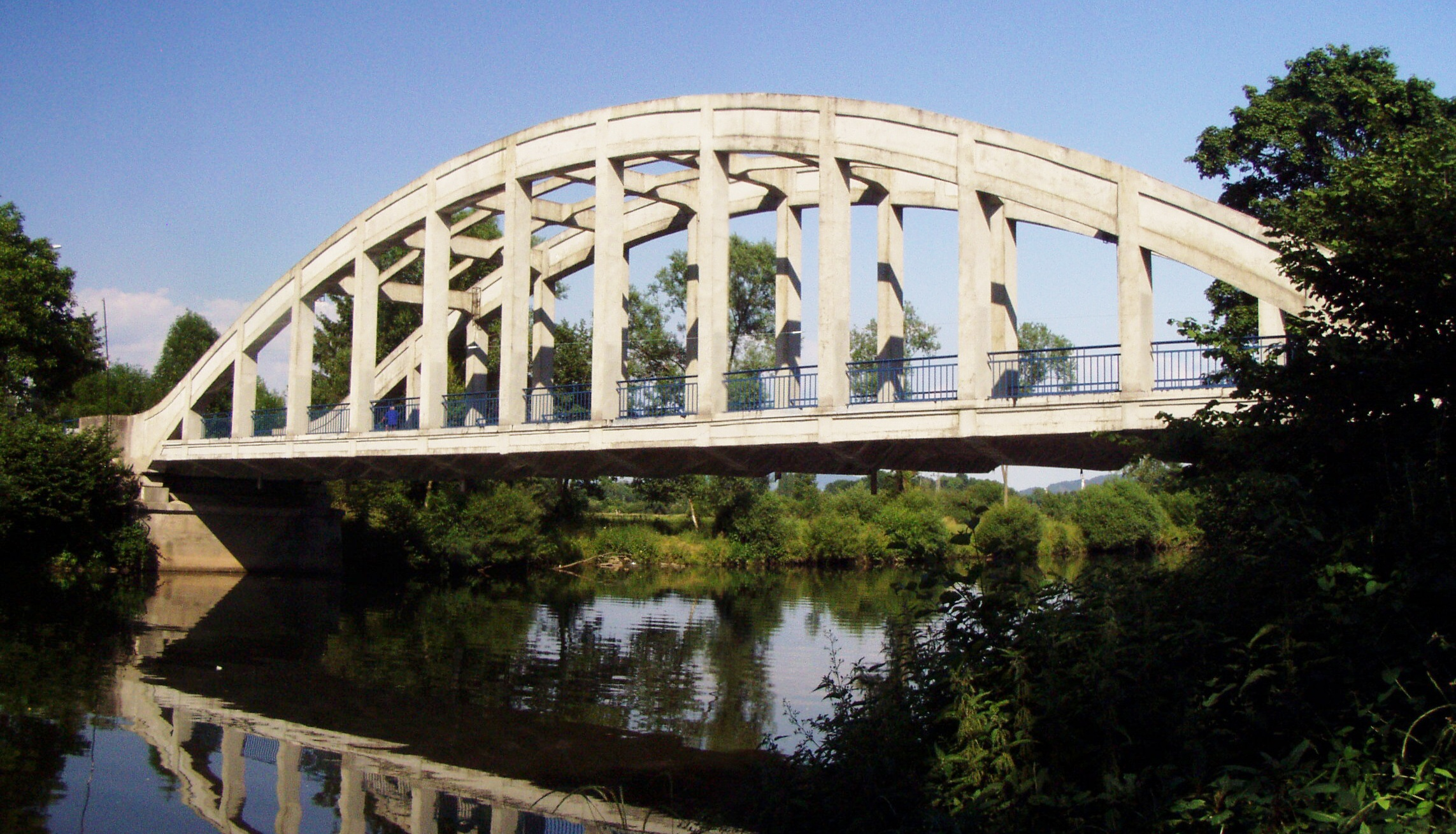 Svijany bridge over the river Jizera